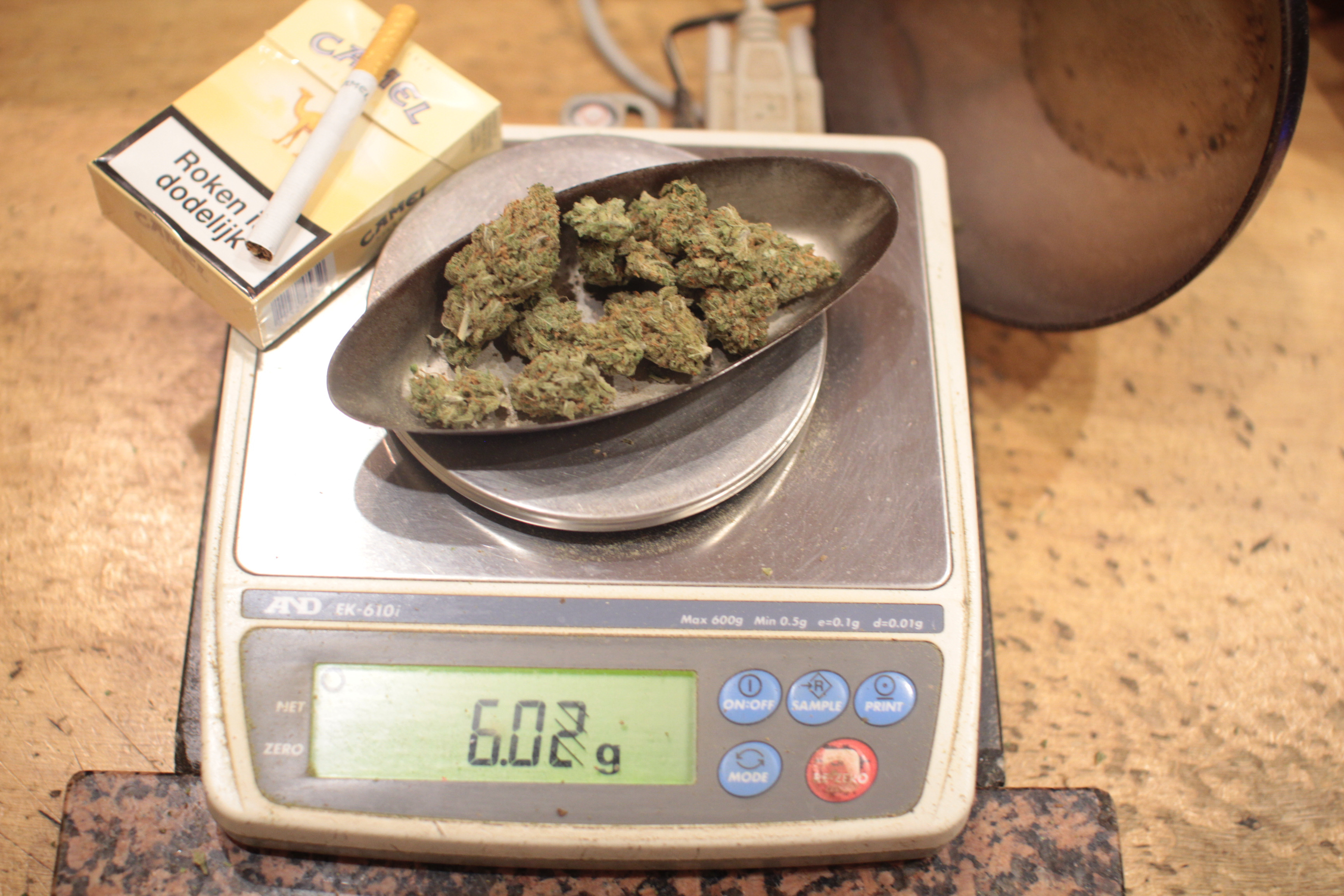 6 grams of marihuana. (Dutch Skunk)